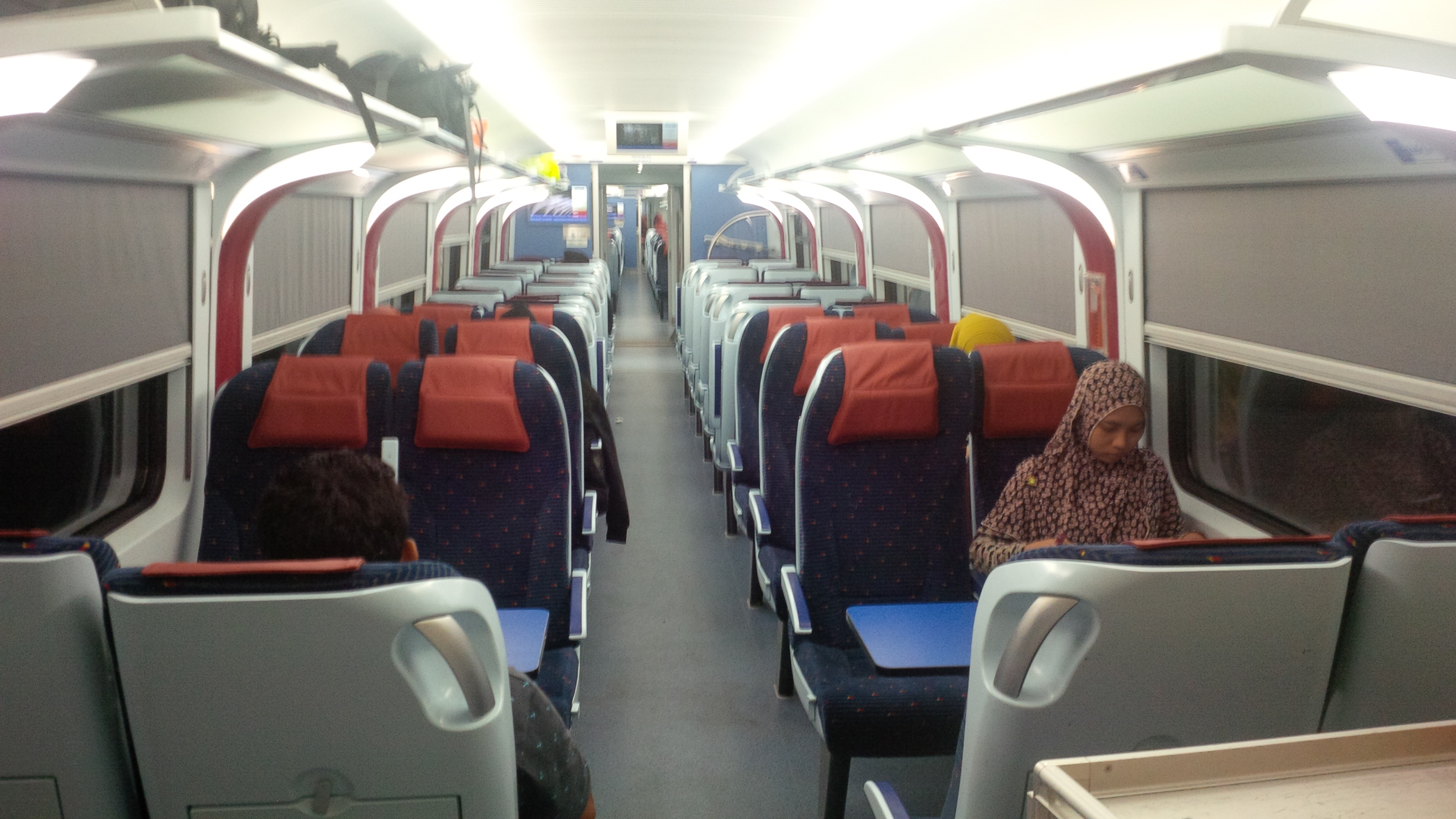 View of the interior of the coach of ETS Train 203.